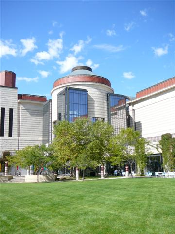 Minnesota Historical Society History Center, Saint Paul, Minnesota